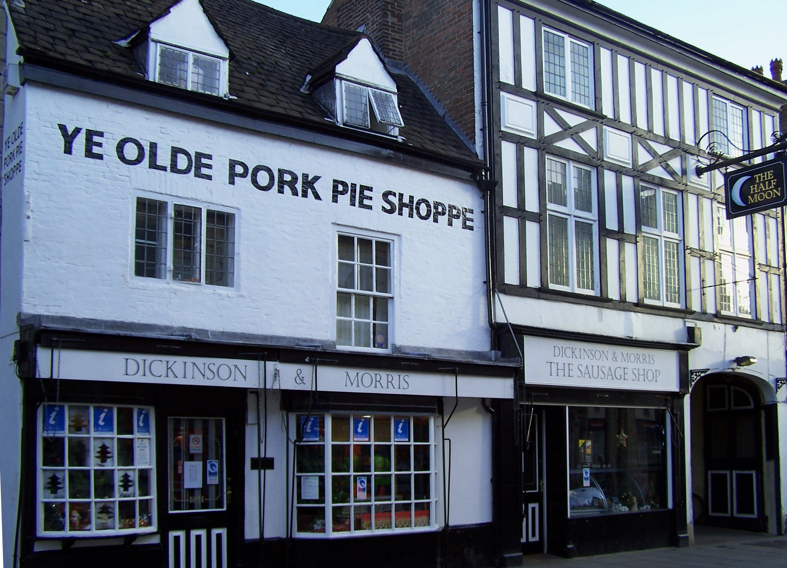 Dickensons and Morris Pie Shop Melton Moybray.